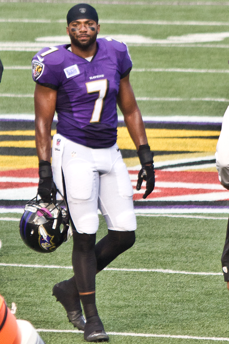 Gerrard Sheppard at Ravens stadium Practice 2013